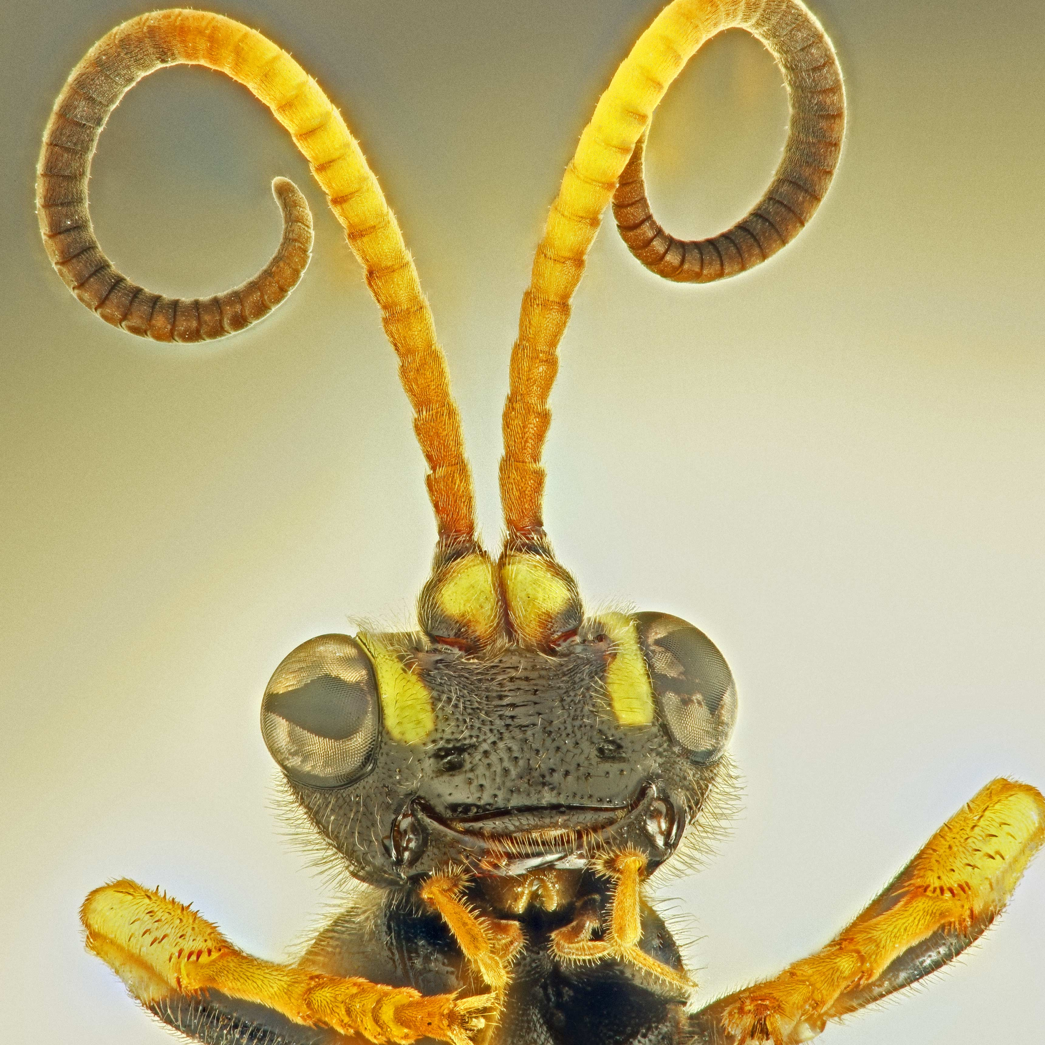 a fairly common parasitoid of noctuid Lepidoptera pupae. This insect was found in my conservatory where I think it had been trapped for about a week or so. I took some shots of its back, side and front and posted them on the Facebook Hymenoptera where they were identified by Gavin Broad, senior curator of Hymenoptera at the Natural History Museum in London. This photo was made from 60 images shot RAW with Canon T3i, 100mm f/2.8 macro with Raynox DCR-250 at f/5.6, 2.0 sec, ISO-100. Lit with 2 Ikea LED lamps diffused through a plastic tube covered with tissue. Camera moved by turning the micrometer on a linear slide 0.1mm between shots. Images tweaked to improve contrast, sharpened and converted to TIFF with Canon Digital Photo Pro, processed with Zerene Stacker using PMax, then output image cropped, levels adjusted, cleaned up and converted to reasonably-sized JPEG using PS Elements. I tried my best to get the contrast right, but the image still looks a bit washed out. I think that this may be partly due to the shiny surface of the wasp's face.